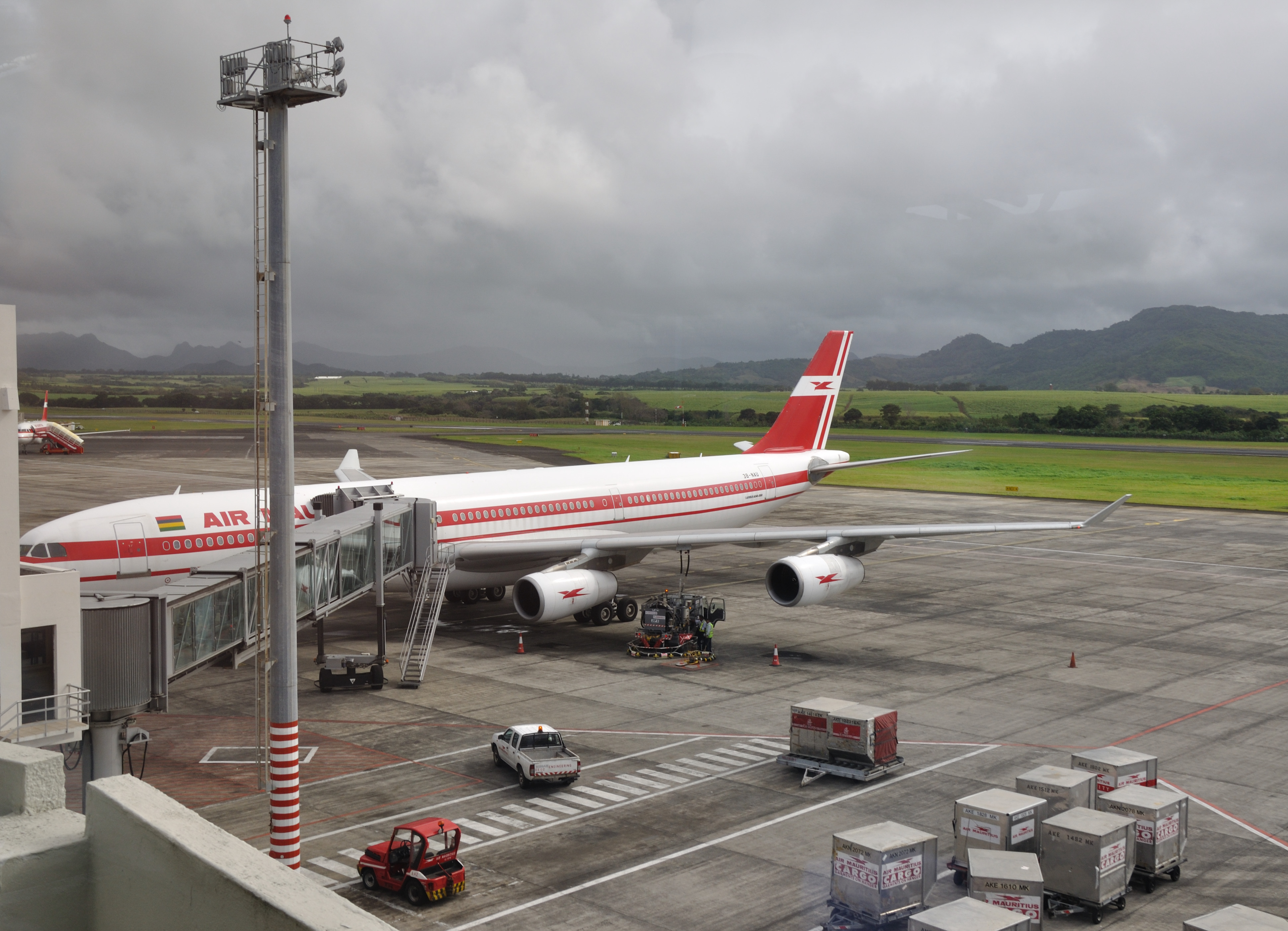 Mauritius, Air Mauritius A340-300 parked at the gate at Sir Seewoosagur Ramgoolan International Airport in Mauritius